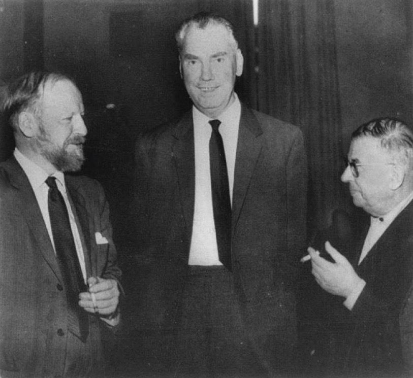 William Golding, Artur Lundkvist and Jean-Paul Sartre at a writers' congress in Leningrad, 1963. Featured in the book "Självporträtt av en drömmare med öppna ögon" by Artur Lundkvist from 1966.